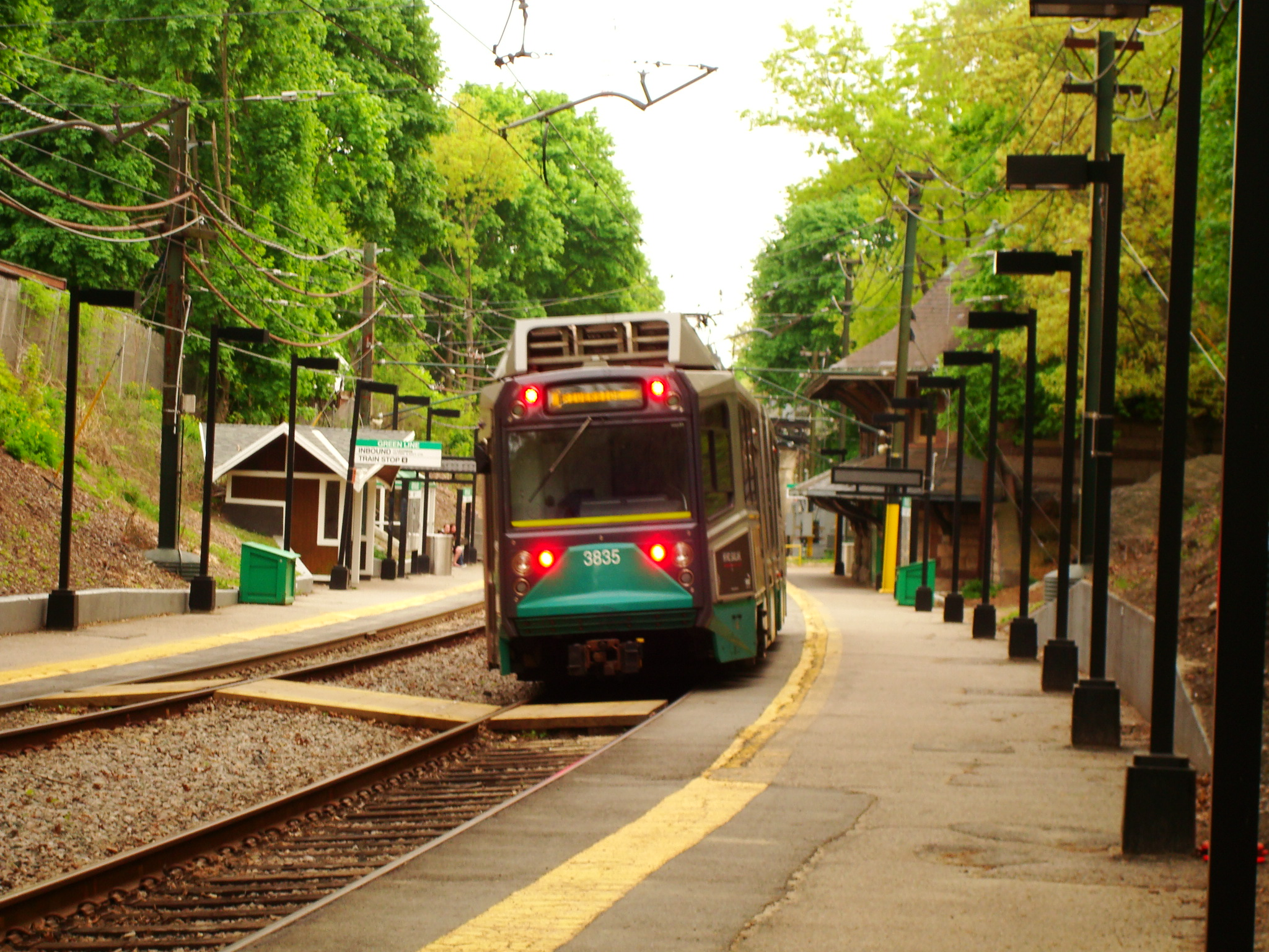 Type 8 trolley #3835 at headed outbound at Newton Highlands station. The historic station building is to the right background.